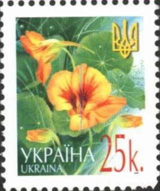 Stamp of Ukraine depicting Tropaeolum majus